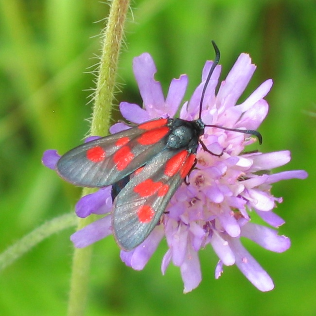 Zygaena viciae Many thanks to Daniel Bartsch from for determination!